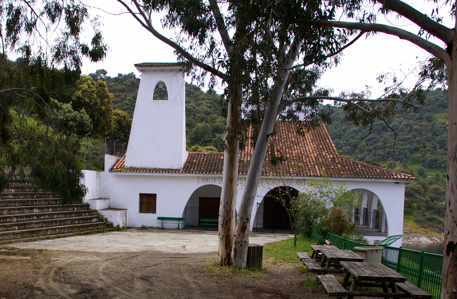 Hermitage of Our Lady of the River in Talaván (Extremadura, Spain)